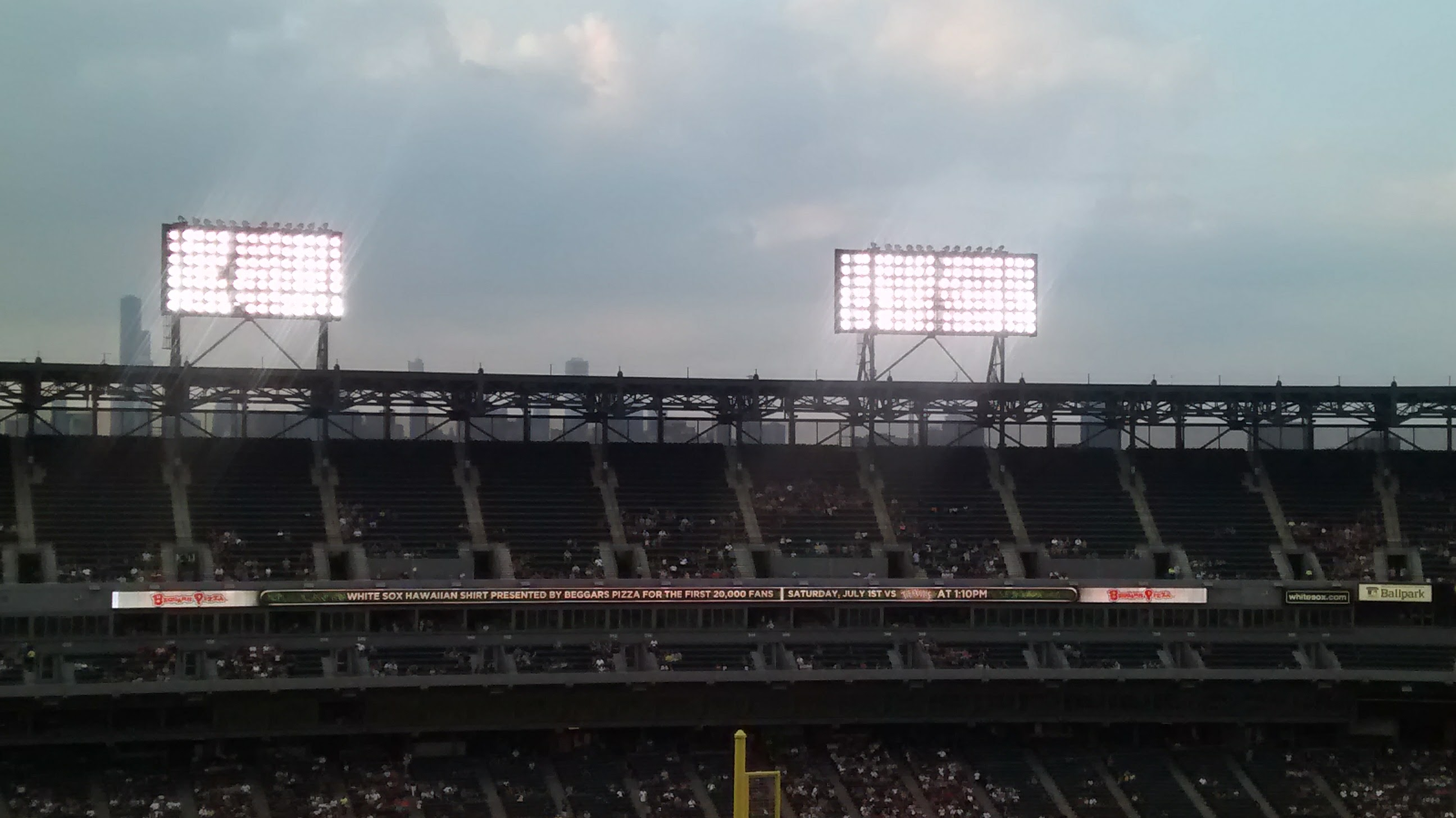 Upper deck with the Chicago skyline in the background